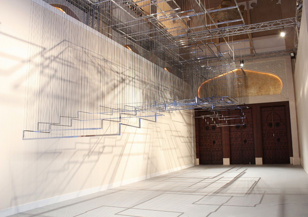 Flying Carpets | 2011 Chrome plated Aluminium,threads. 1300cm x 340cm x 420cm // Commissioned by Abraaj Captial Art Prize // © Nadia Kaabi-Linke // Photo: Timo Kaabi-Linke, 2011